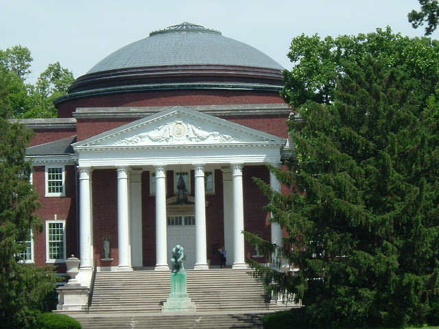 Grawemeyer Hall. Taken by uploader, all rights released